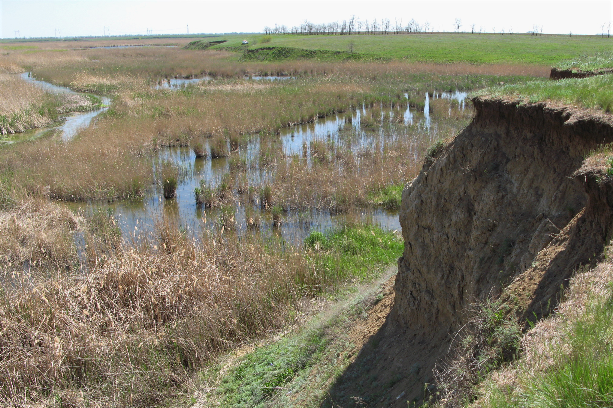 Branch of Manych River near Proletarsk